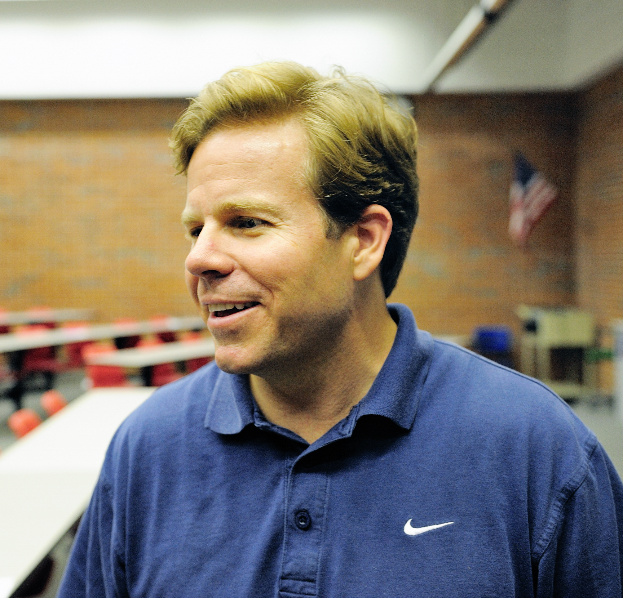 Florida State Senator Mike Haridopolos on Aug. 28, 2008 in a classroom at the University of Florida in Gainesville, FL where he teaches a State Politics course.